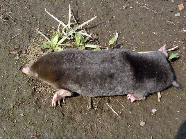 Small Japanese Mole(Mogera imaizumii),Tokyo, 30/May/2006